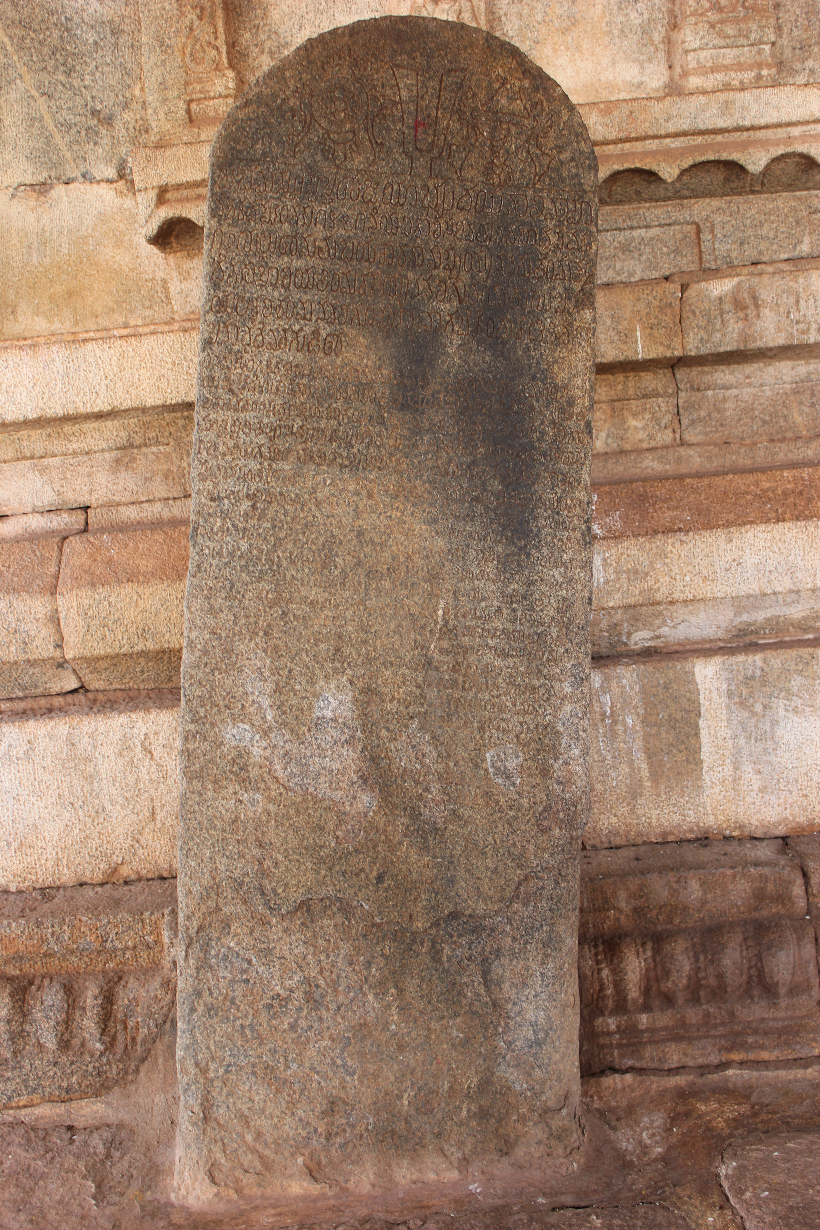 This photograph of a Kannada inscription dated 1539 A.D. was taken by me at the Gopala Krishnaswamy temple in Timmalapura, Bellary district, Karnataka state, India. The temple was constructed by a local chief during the rule of King Achyuta Raya of the Vijayanagara Empire